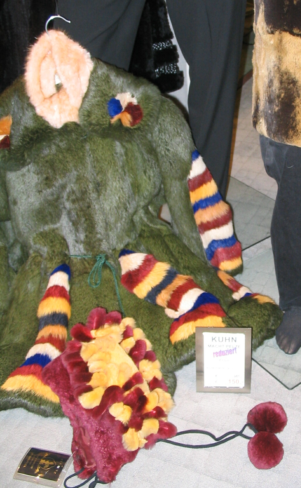 Rex rabbit children's coat and cap, made in UdSSR, french design, 1997